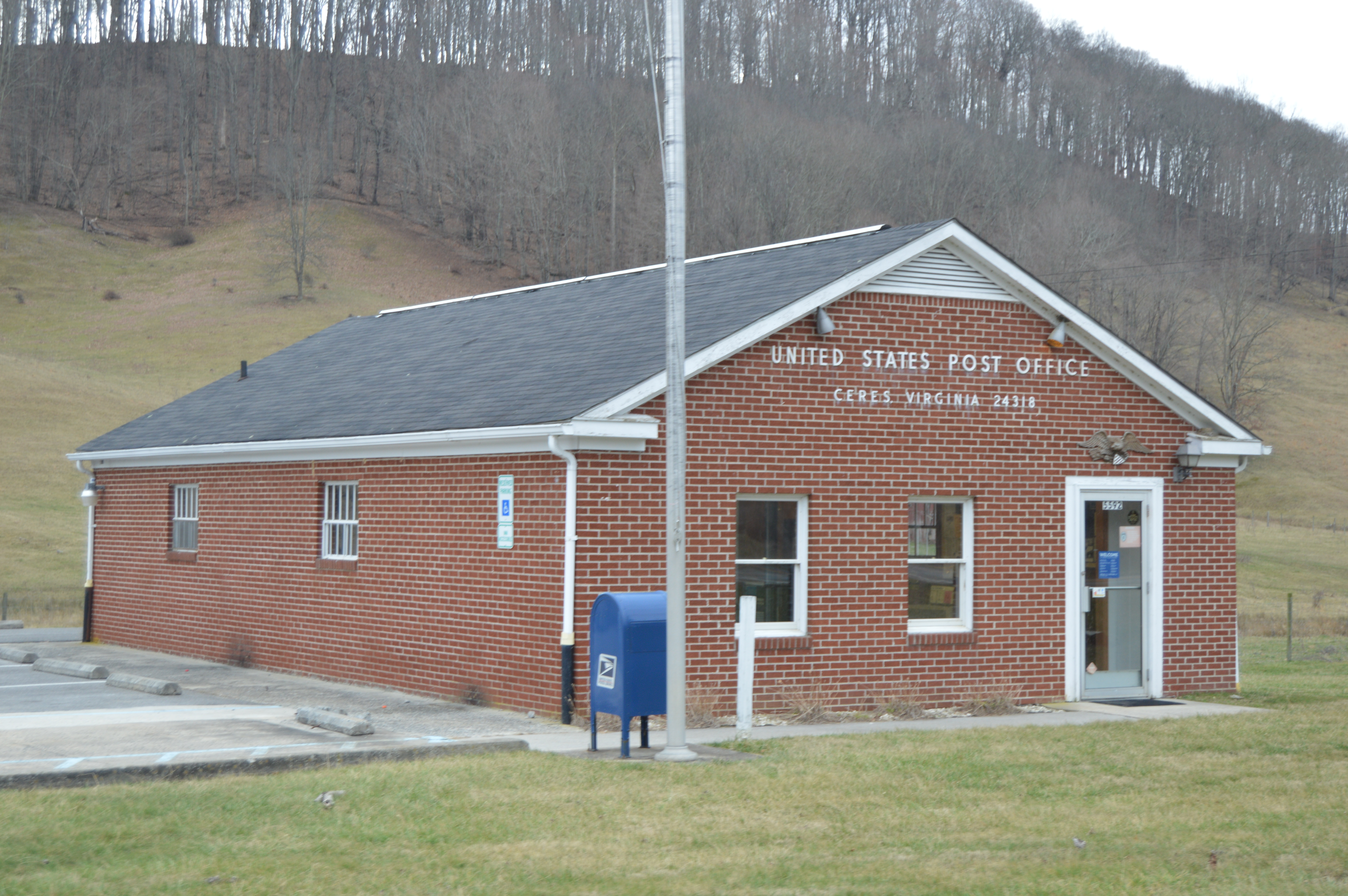 Front and eastern side of the Ceres post office, located at 5592 State Route 42 at Ceres in Bland County, Virginia, United States.